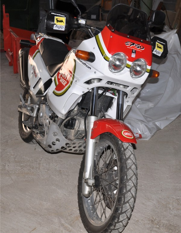 Cagiva Elefant 750 AC